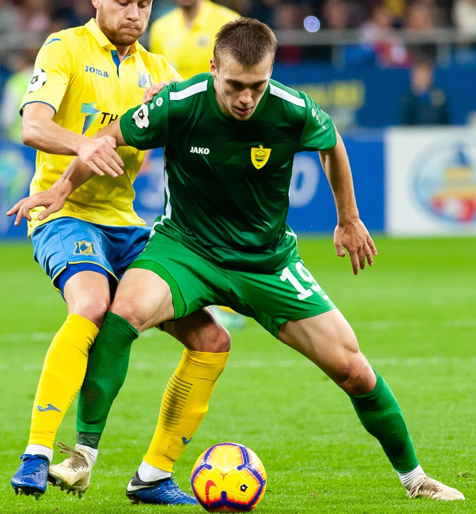 Pavel Dolgov with FC Anzhi Makhachkala in a game against FC Rostov.